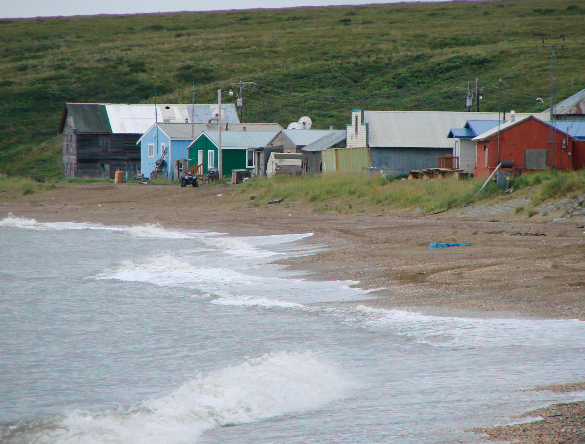 Deering_Community